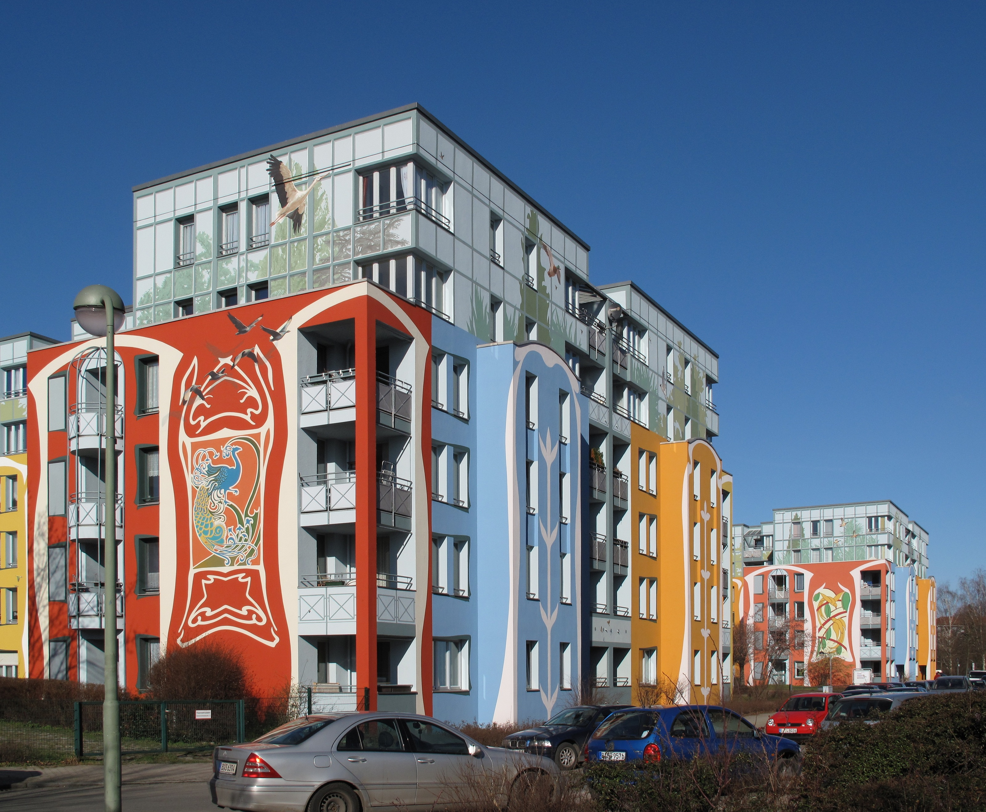 Voliere (birdhouse) is an art project in the High-Deck-Siedlung (housing estate) in Berlin-Neukölln dated from 2008 and 2009. Under the guidance of the french artist group CitéCréation there was painted the facade of a large block (ca. 5.000 m²) with more than 150 birds species as well as flowers and trees. Within the neighbourhood-management-projekt young adults of the quarter got apprenticeships.